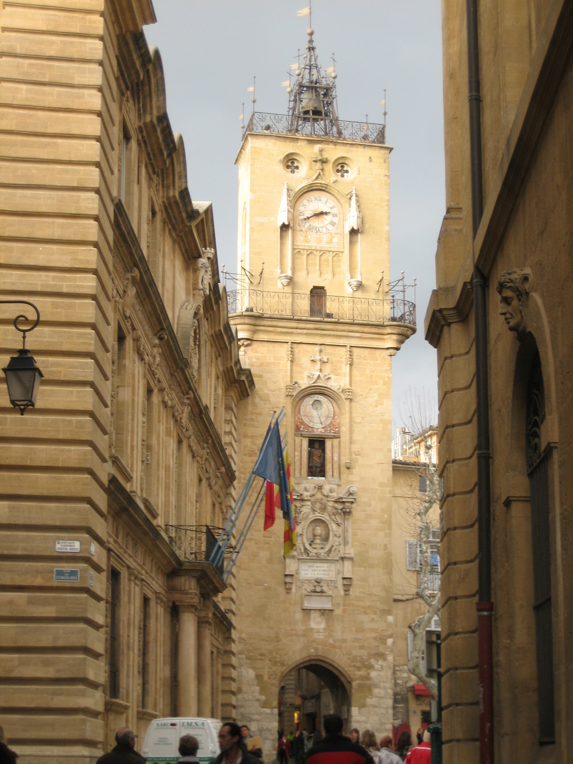 Hôtel de Ville à Aix-en-Provence, France.